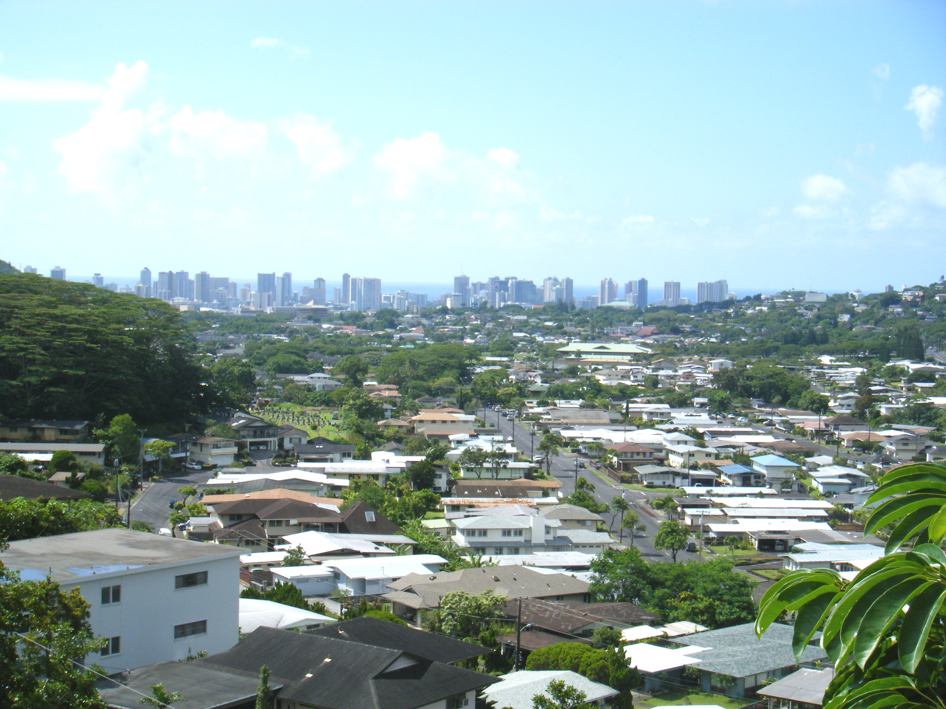 Manoa Valley facing downtown Honolulu